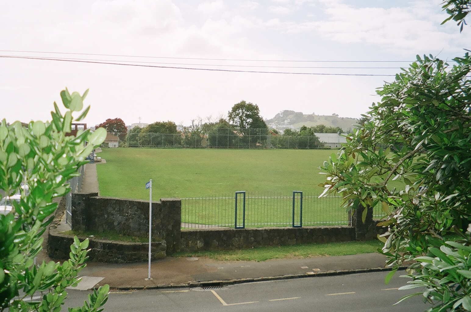 St Peter's College: The Cage Rugby Field (part of former site of Great Northern Brewery)